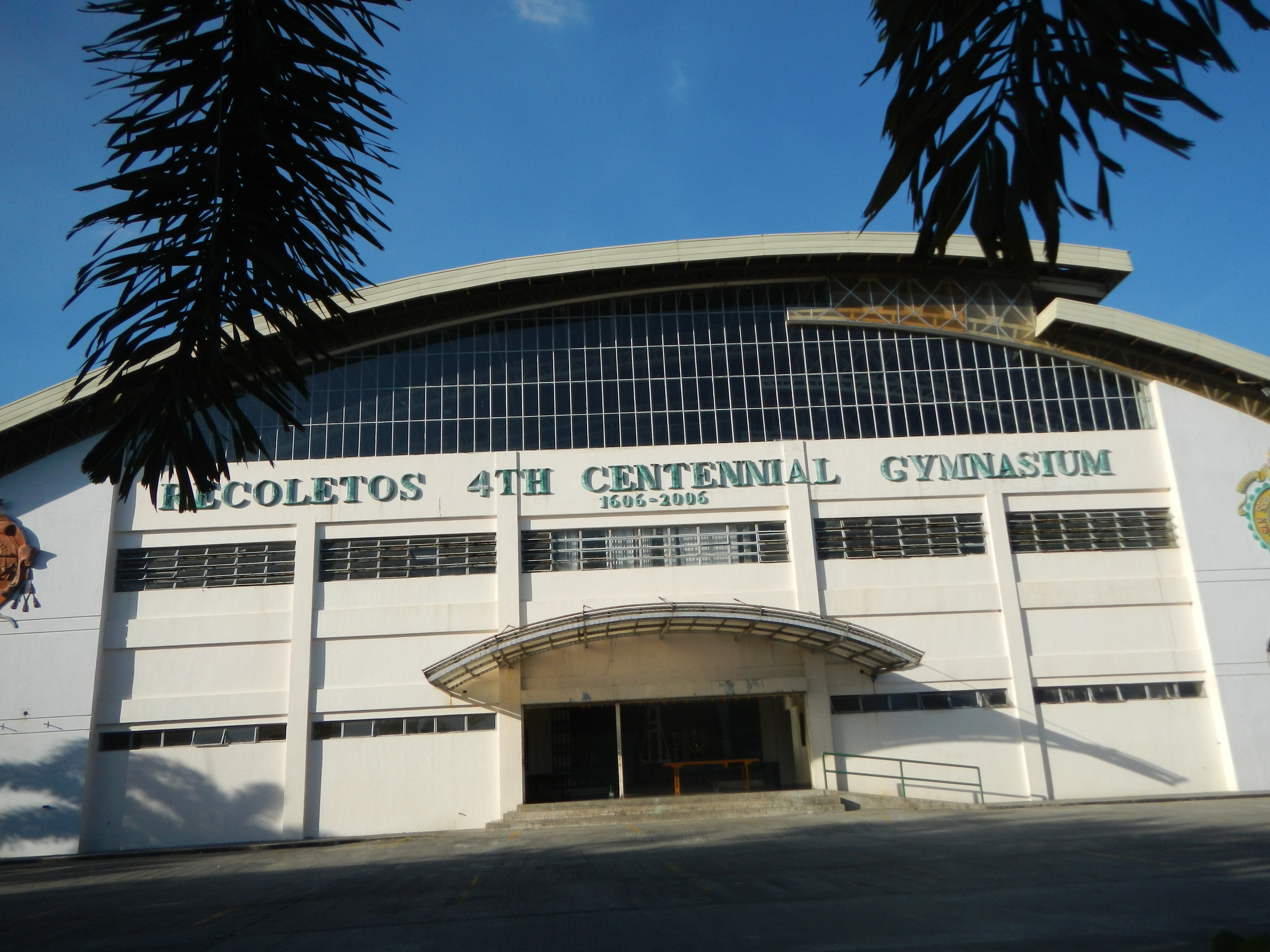 Upload Wizard photos of -- (General description, 3-dimension angle by angle photography of this town, church & landmarks) -- Garita Elementary School, beside the August 1955 Governor Samonte Park View Promenade Cavite City,[1] Coordinates: 14°28'55"N 120°54'32"E [2] (a historic site during the American regime, filled up with Beerhouses, Bars, Bar-B-Q grills and Burger Stands; the place of Mr. Arman Castro... a.k.a. Kap. a traveller with a dog with his native style refreshment house mainly for his fellow travellers - Coordinates: 14°28'54"N 120°54'33"E - which includes the baywalk, the sea shore, beach, makeshift fishermen houses in floating in the sea, the blue sky, the burning sun, and in front is the San Sebastian College-Recoletos de Cavite, and the Historic 13 Martyrs Monument memorial in Cavite City September 12, 1906 Monument - the National Red Cross building of Cavite City, Children's park with Giant Animal Statues, Governor Jano Samonte statue, beside the Cavite City Park and City Hall). - Cavite City[3].